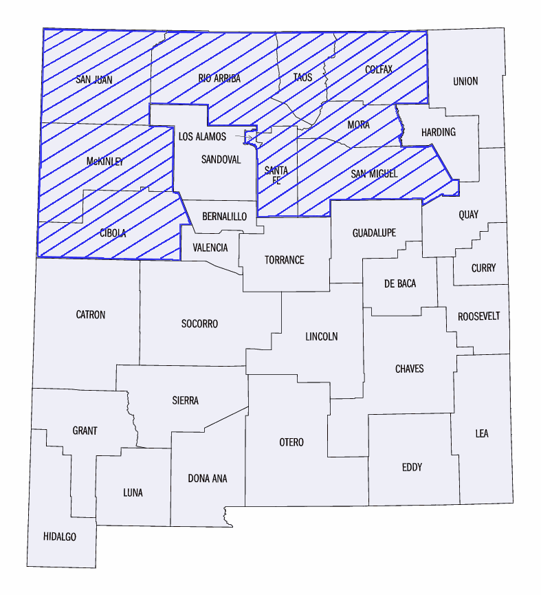 Map of New Mexico, United States, showing with blue hatching the counties designated Northern New Mexico in New Mexico state documents. Base map from public domain US Census Bureau map of New Mexico counties, as then modified by the uploader.